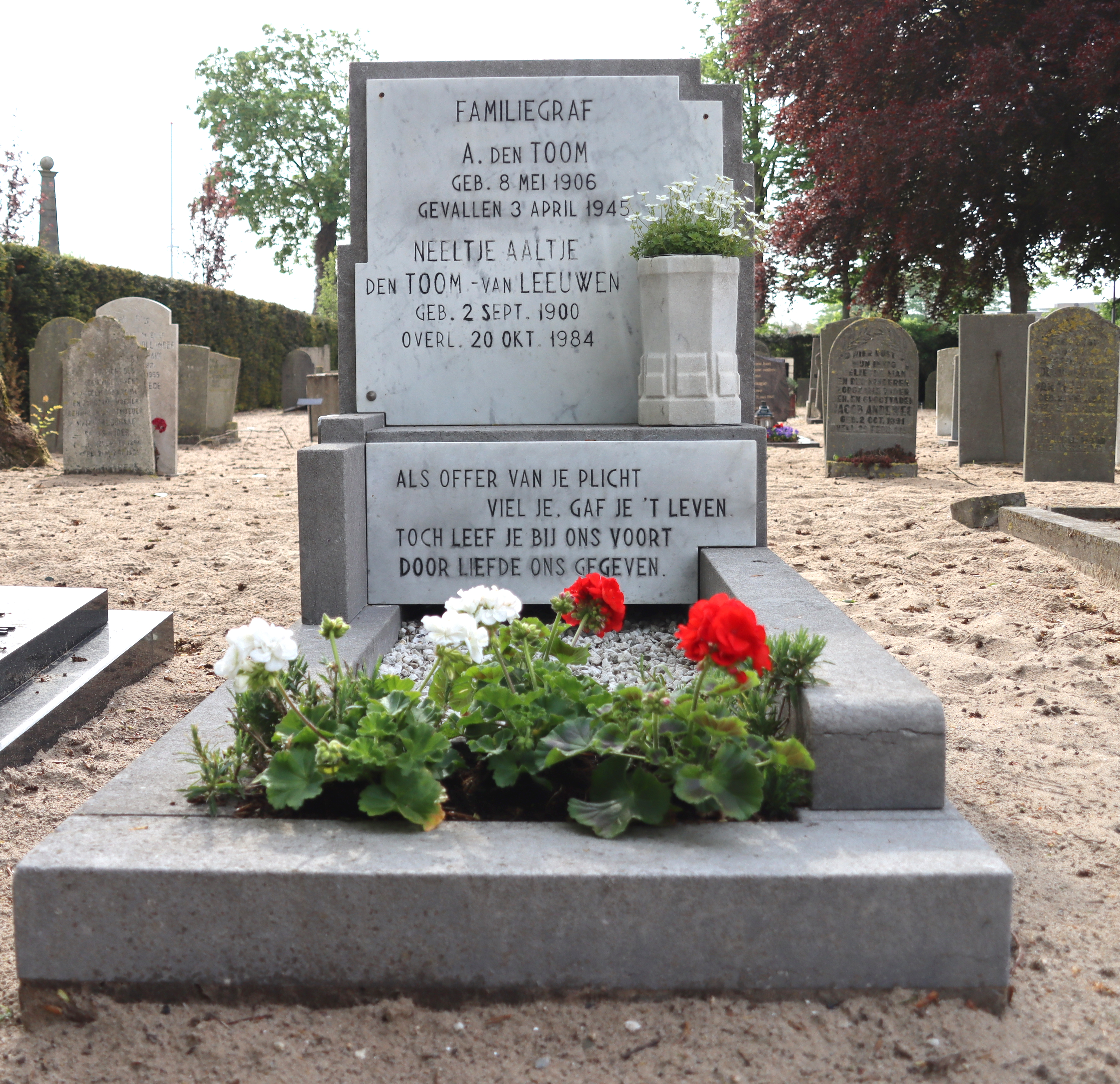 The grave of resistance fighter Arie Den Toom at the old cemetery of Nieuwerkerk aan den IJssel where he was reburied on 6 August with military honor. Den Toom was buried briefly in Kralingen after he was shot by the Germans in April 1945 with 19 other people.